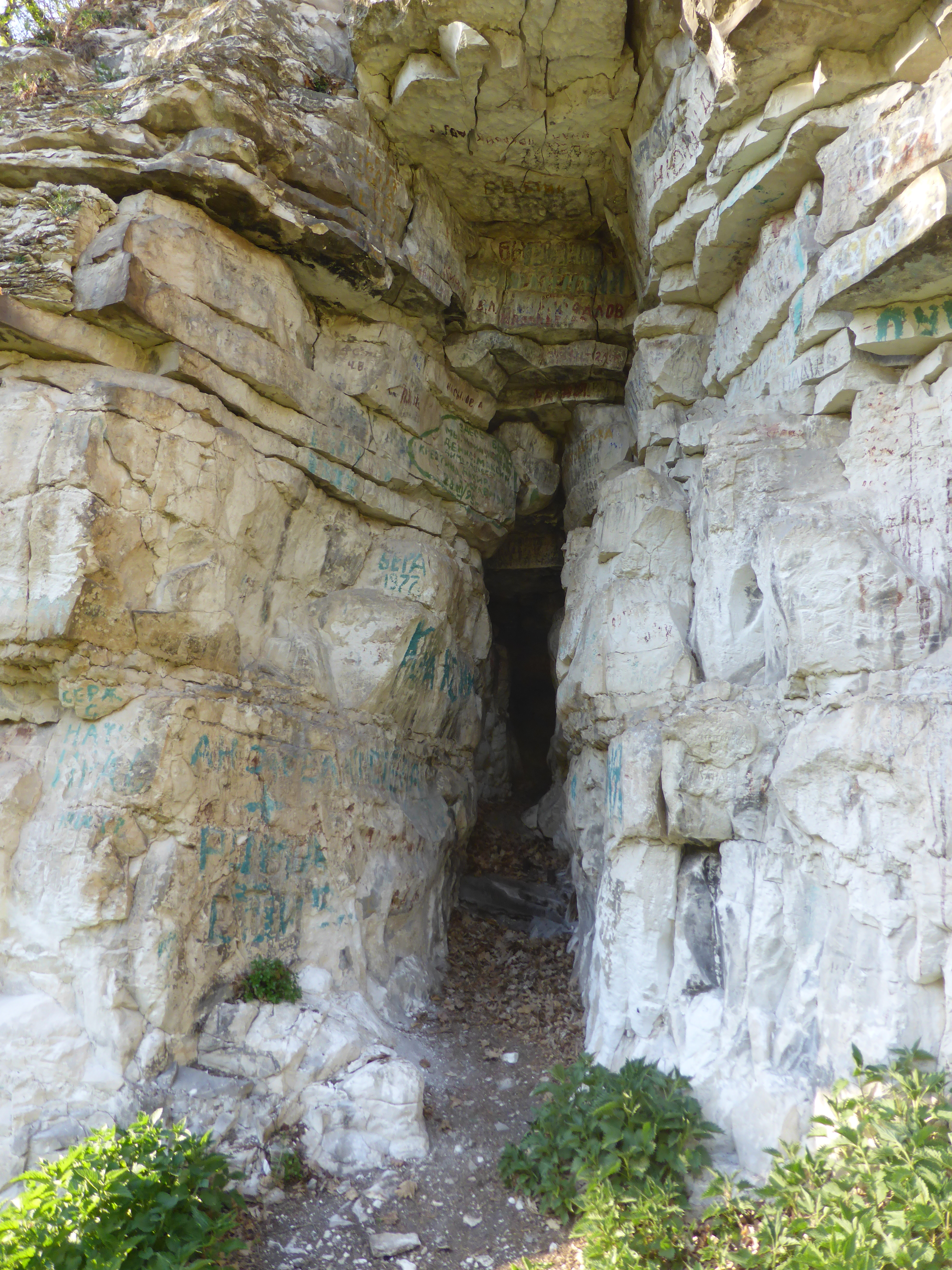 cave Alimkina